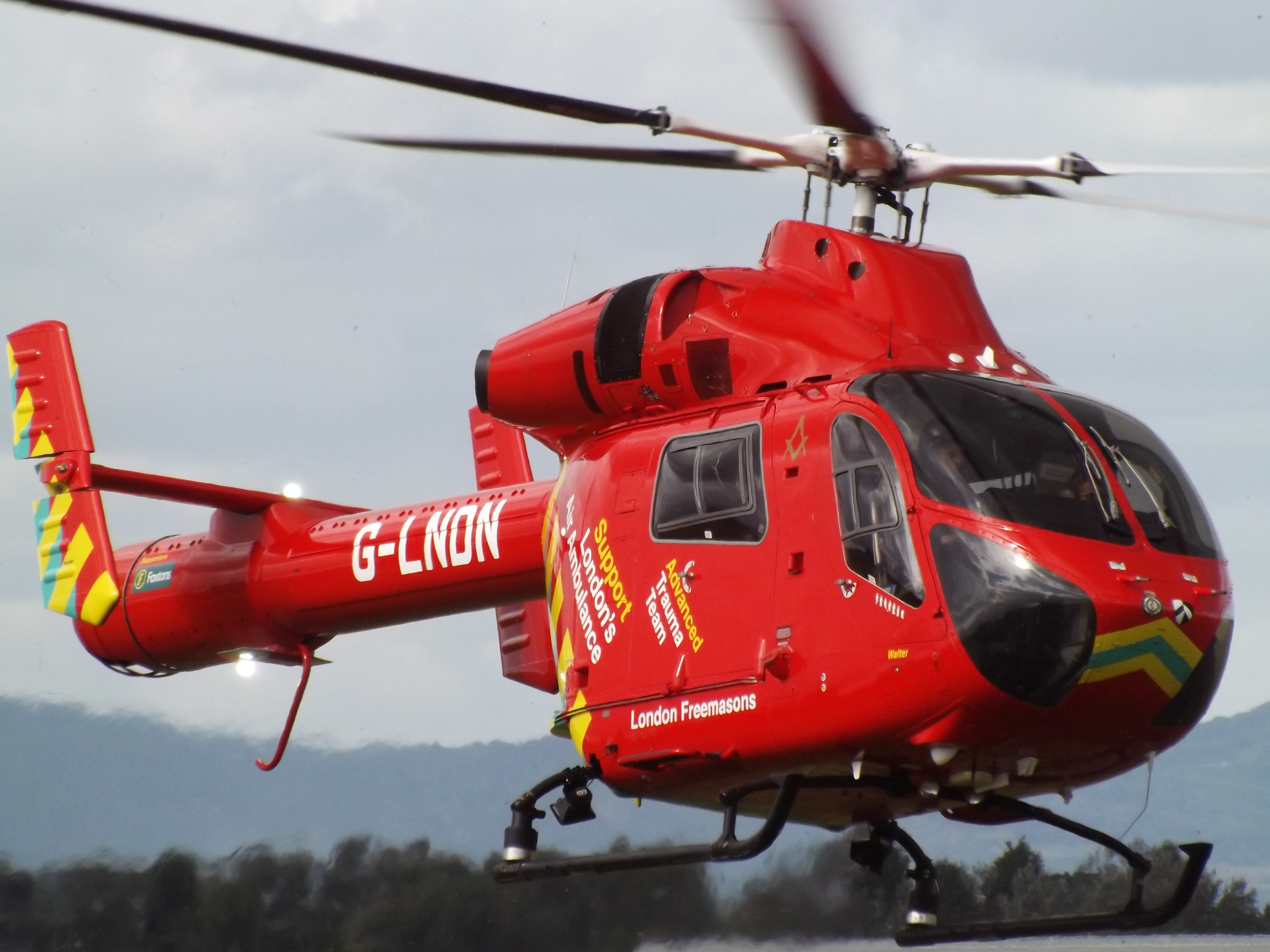 At Gloucestershire Airport.